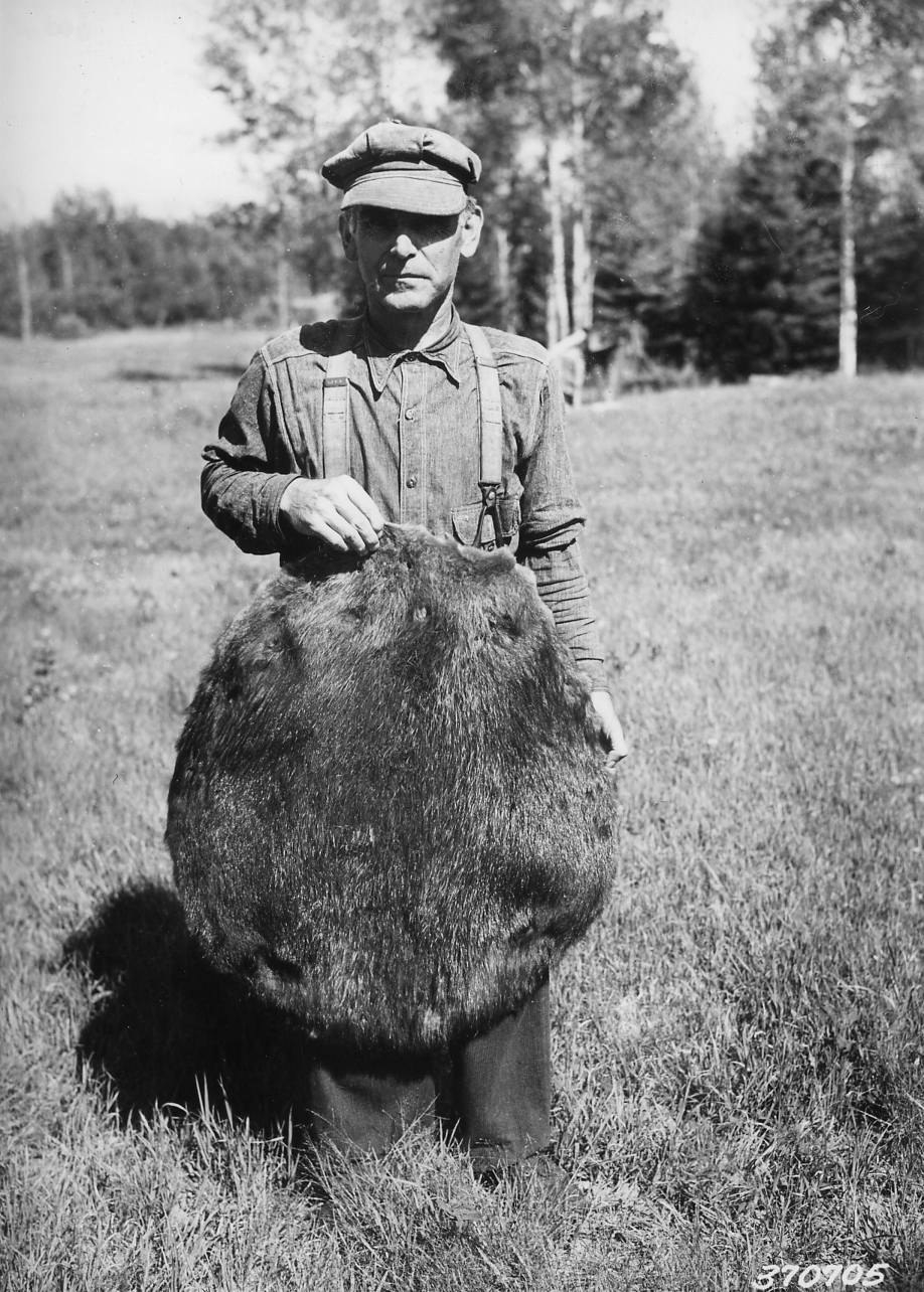 Scope and content: Original caption: Beaver pelt.